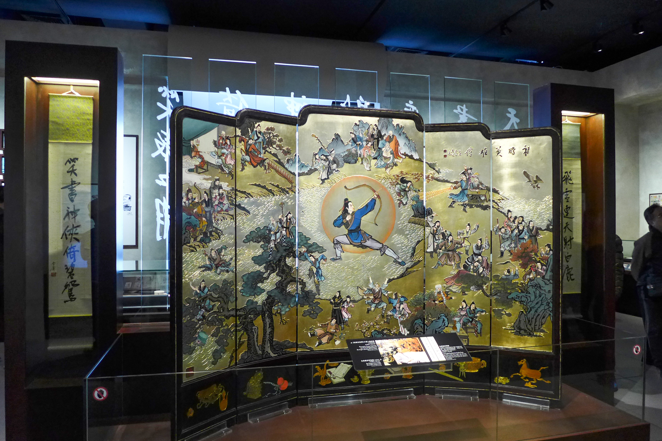 The Eagle-shooting Heroes Decorative screen in Jin Yong Gallery